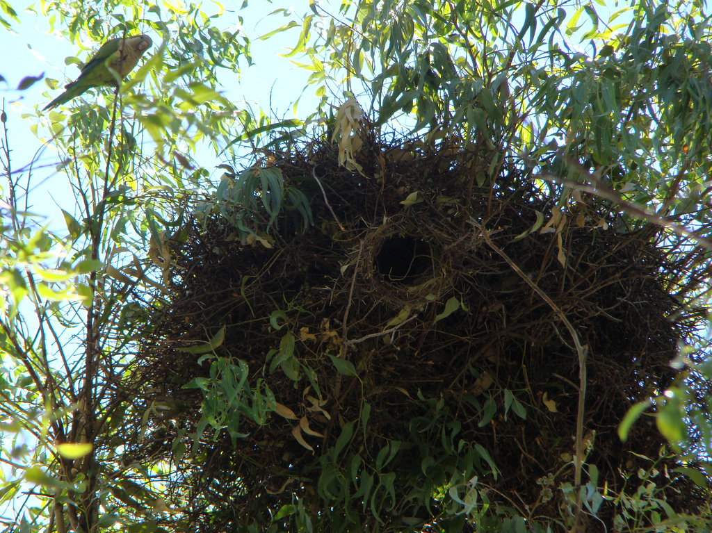 Monk Parakeet, also called Quaker Parrot, in Rio Grande do Sul, Brazil. The photo shows the access to the entrance of the nest.